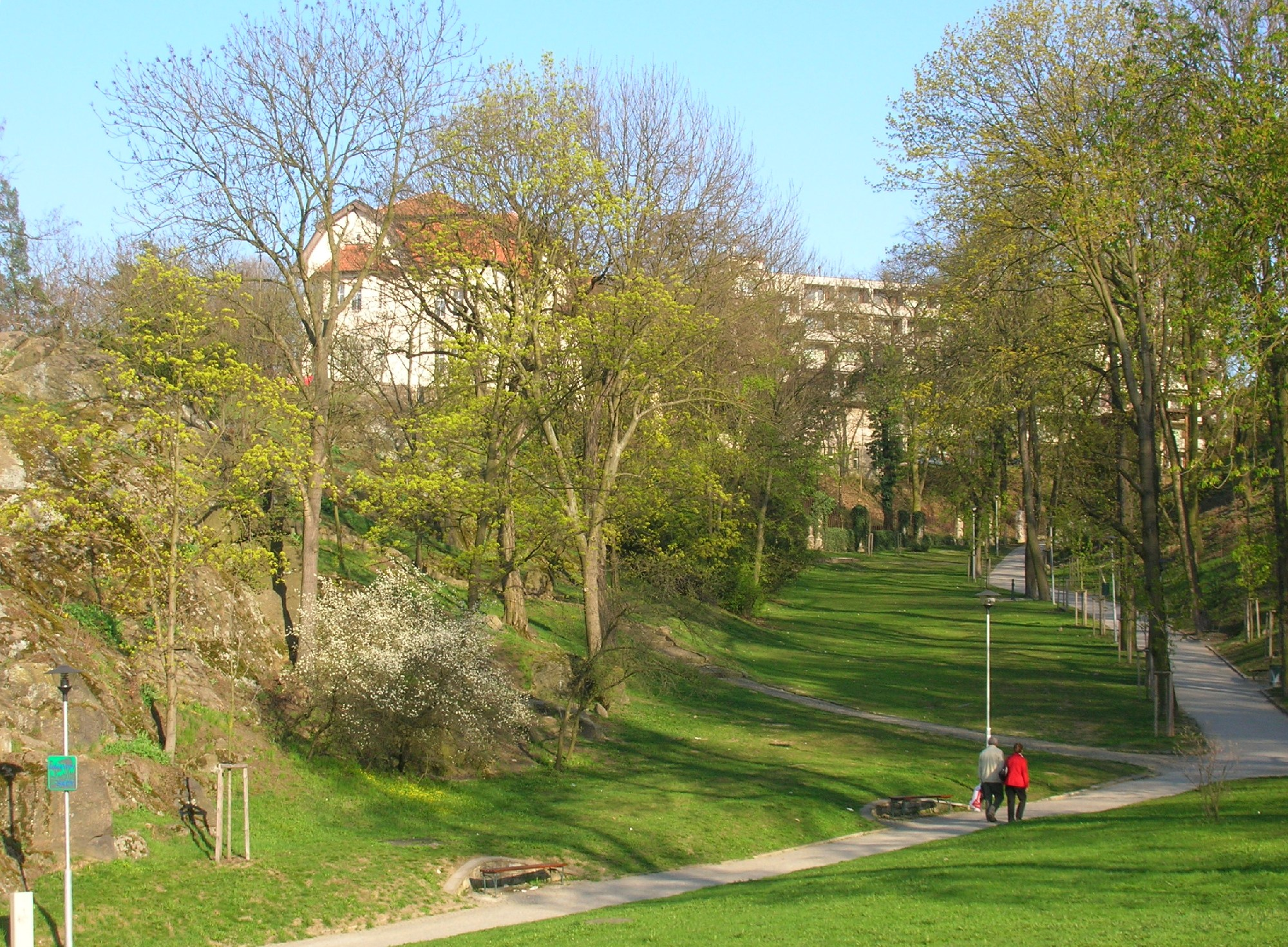 Třebíč-Jejkov. Mácha's gardens from the W